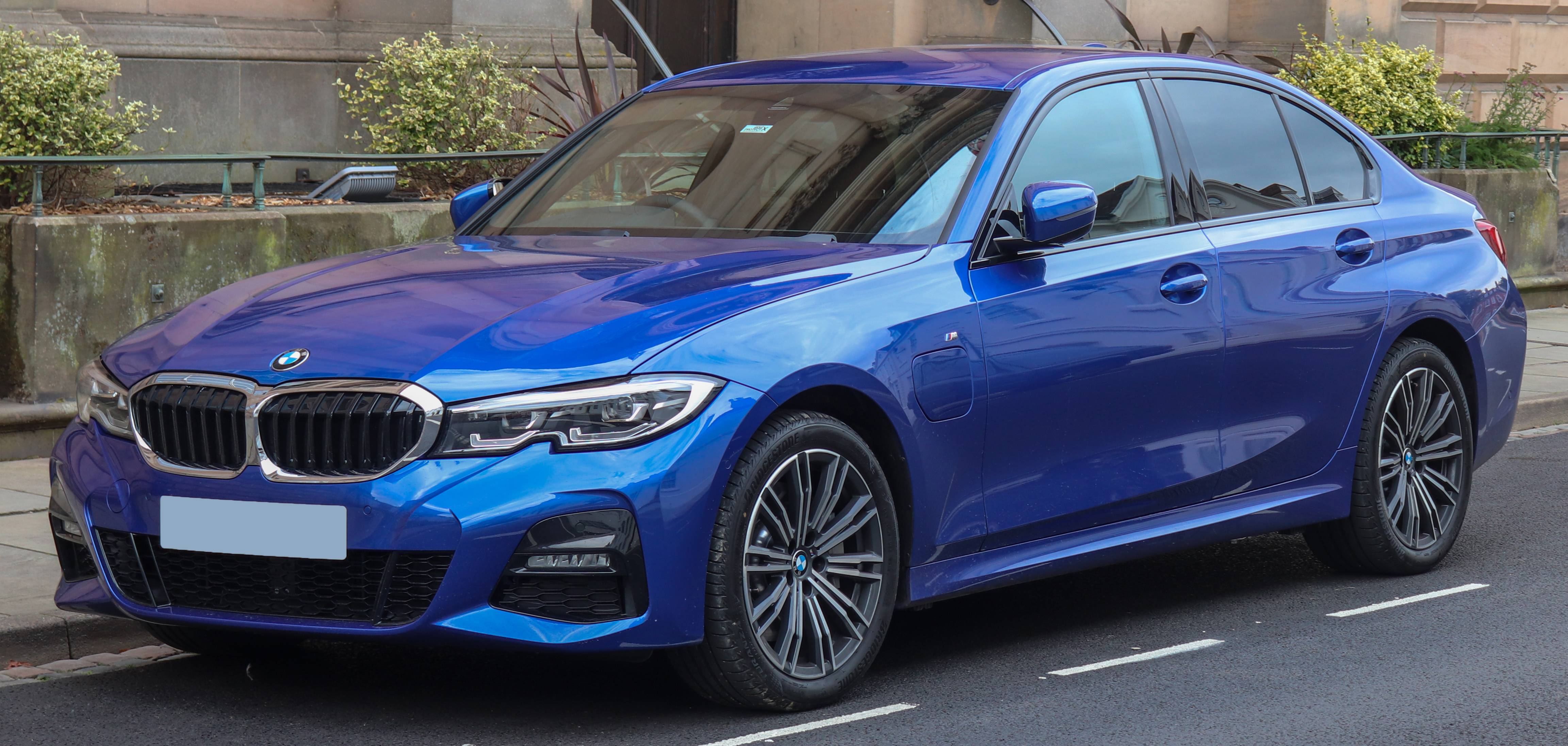 2019 BMW 330e M Sport Automatic 2.0 Front Taken in Warwick